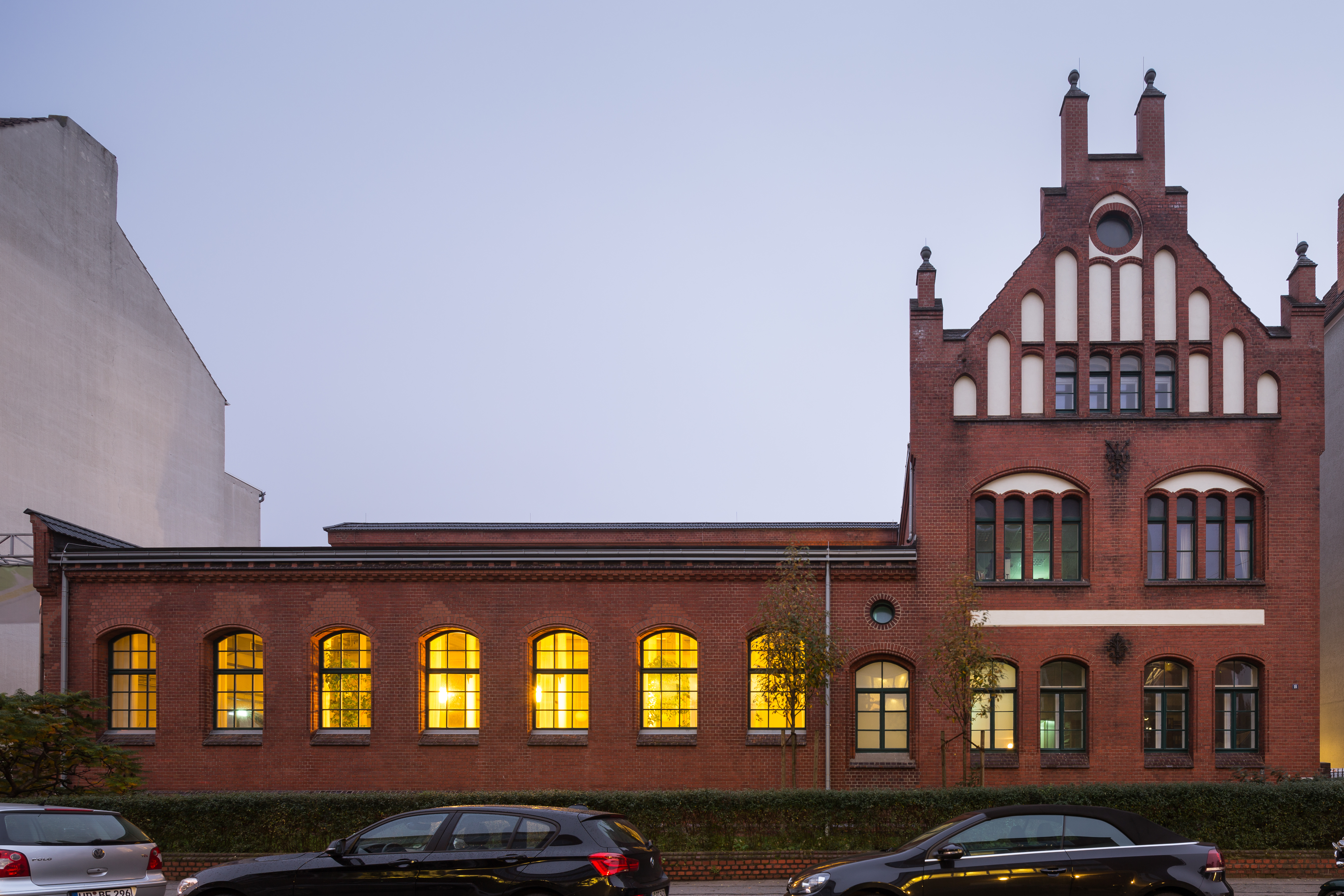 House located at Kestnerstrasse no. 18 in Suedstadt quarter of Hannover, Germany.